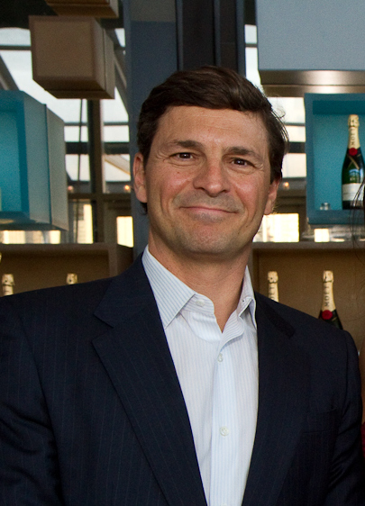 David Faber (CNBC) at the Financial Times Spring Party, April 19: New York. Photo Credit: Grace Villamil